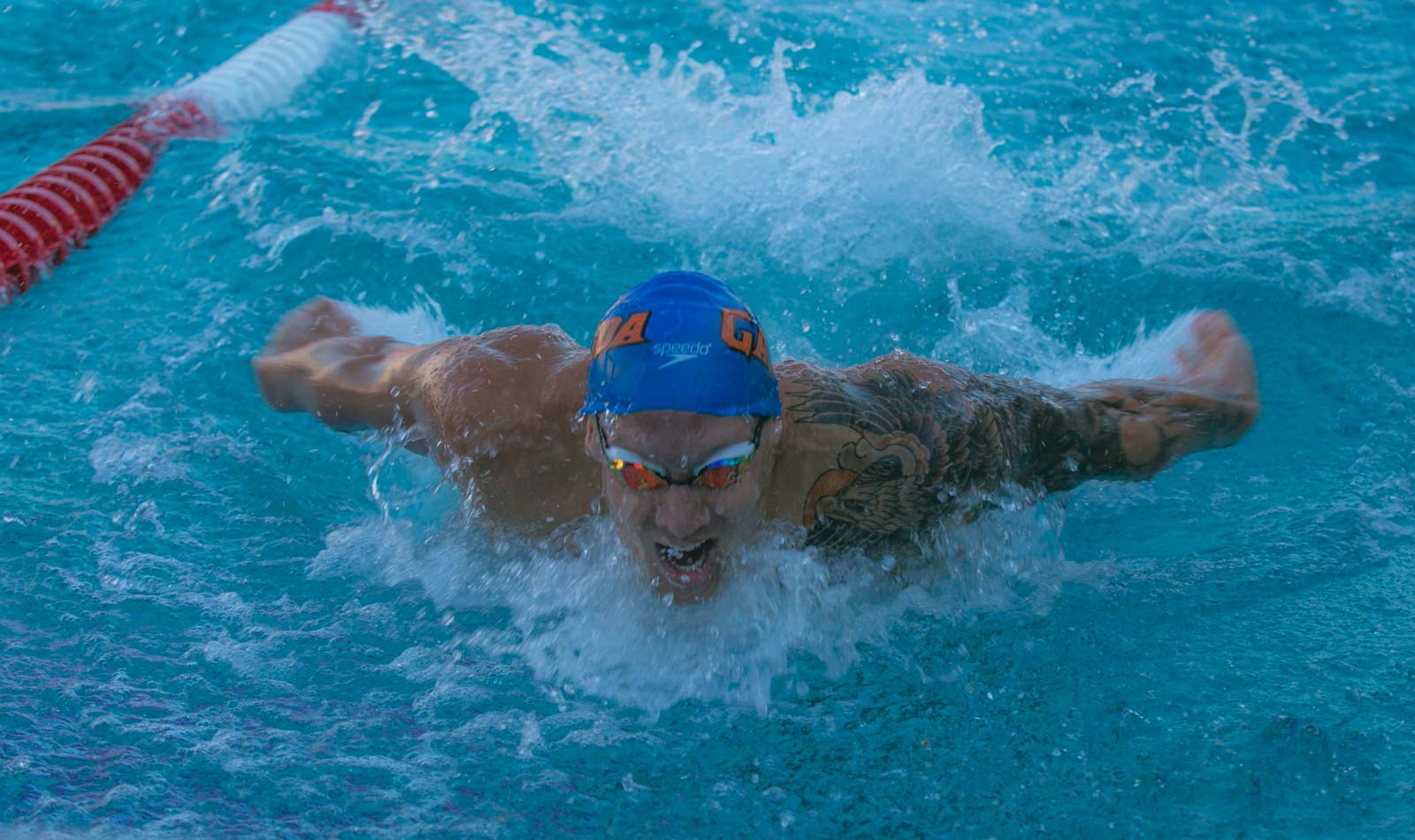 Caeleb Dressel during 100 fly